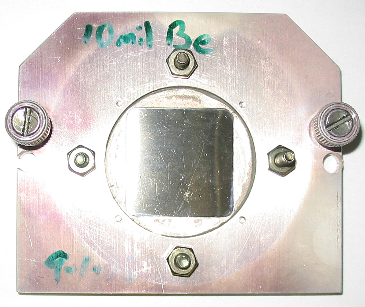 Beryllium foil for an x-ray microscope vacuum window. (inner square is Be mounted in steel holder) Unsharp mask and autocontrast applied in photoshop.